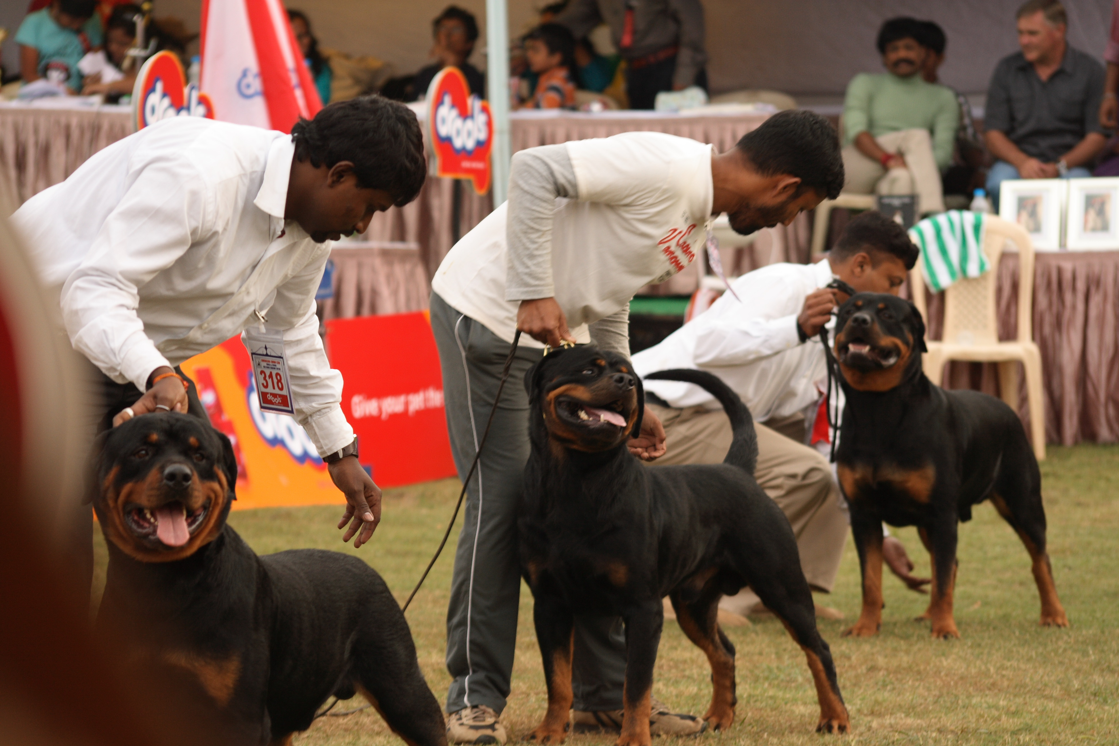 Rottweilers being made to stand with their legs straight by their owners